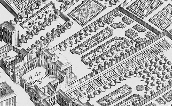 The Hôtel de Matignon from the Turgot map of Paris circa 1737